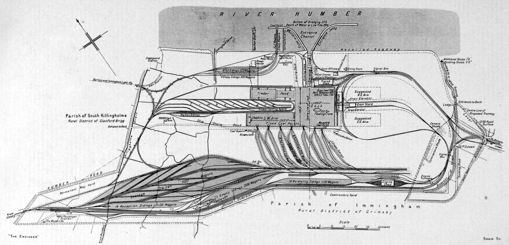 Plan of Immingham dock, UK Scan from : The Immingham Dock. No.I (17 May 1912).